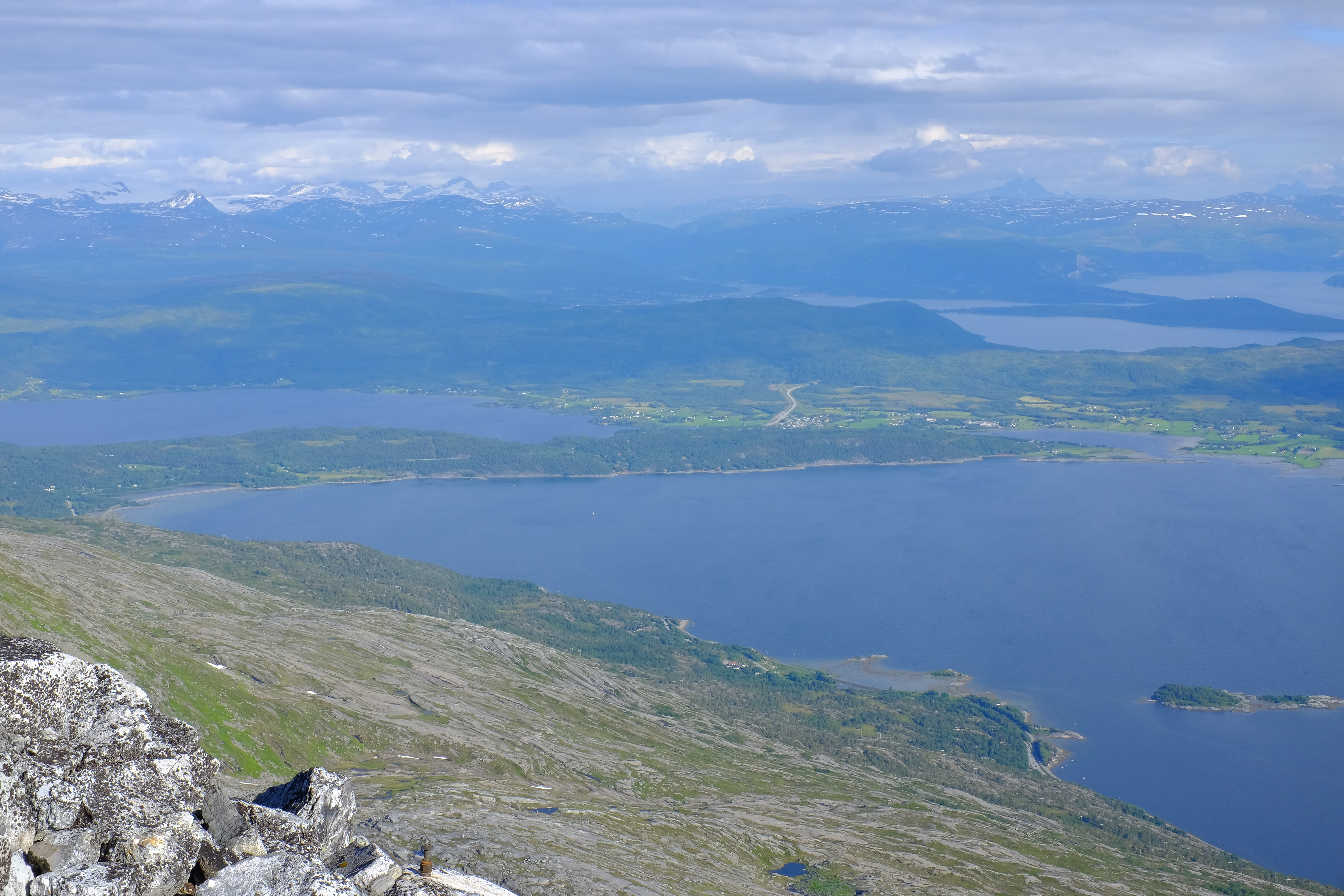 Valnesfjorden seen from Mjønestindan. Valnesfjorden is a village in Fauske, Nordland, Norway.